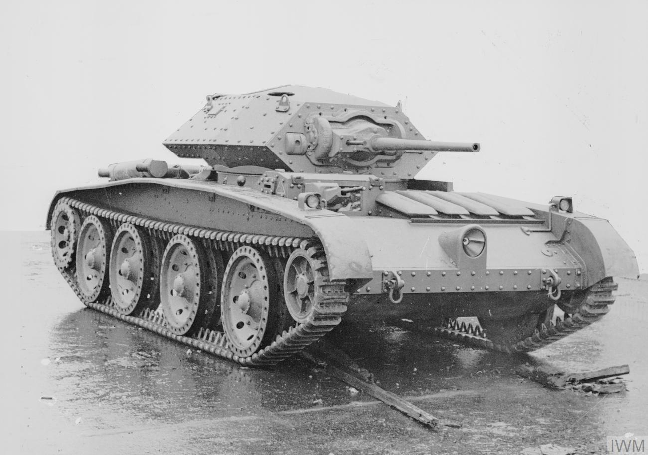 A British, Cruiser Mk V Covenanter III (A13 Mk III) tank. Pilot model